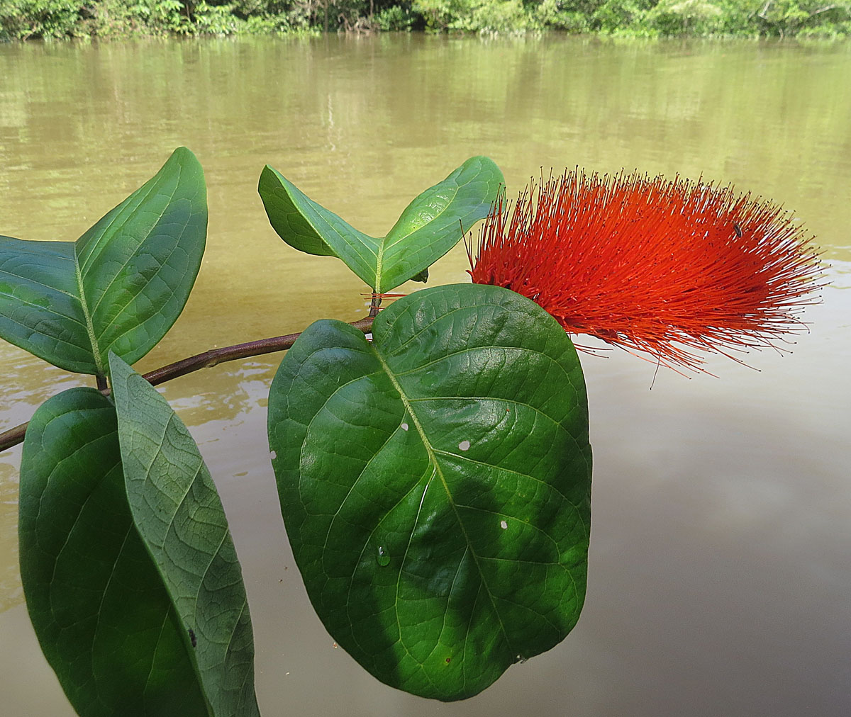 A Neotropical species in the Colombian Amazon. Known as Cepilla de Boa (Boa's Toothbrush).